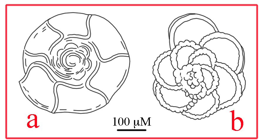 These two pelagic Foraminifera from upper Creataceous, Globotruncana stuarti and G. lapparenti, extinct before Danian as a result of Chicxulub meteoritic impact. Drawing from de Lapparent (1918) and Brotzen (1936).